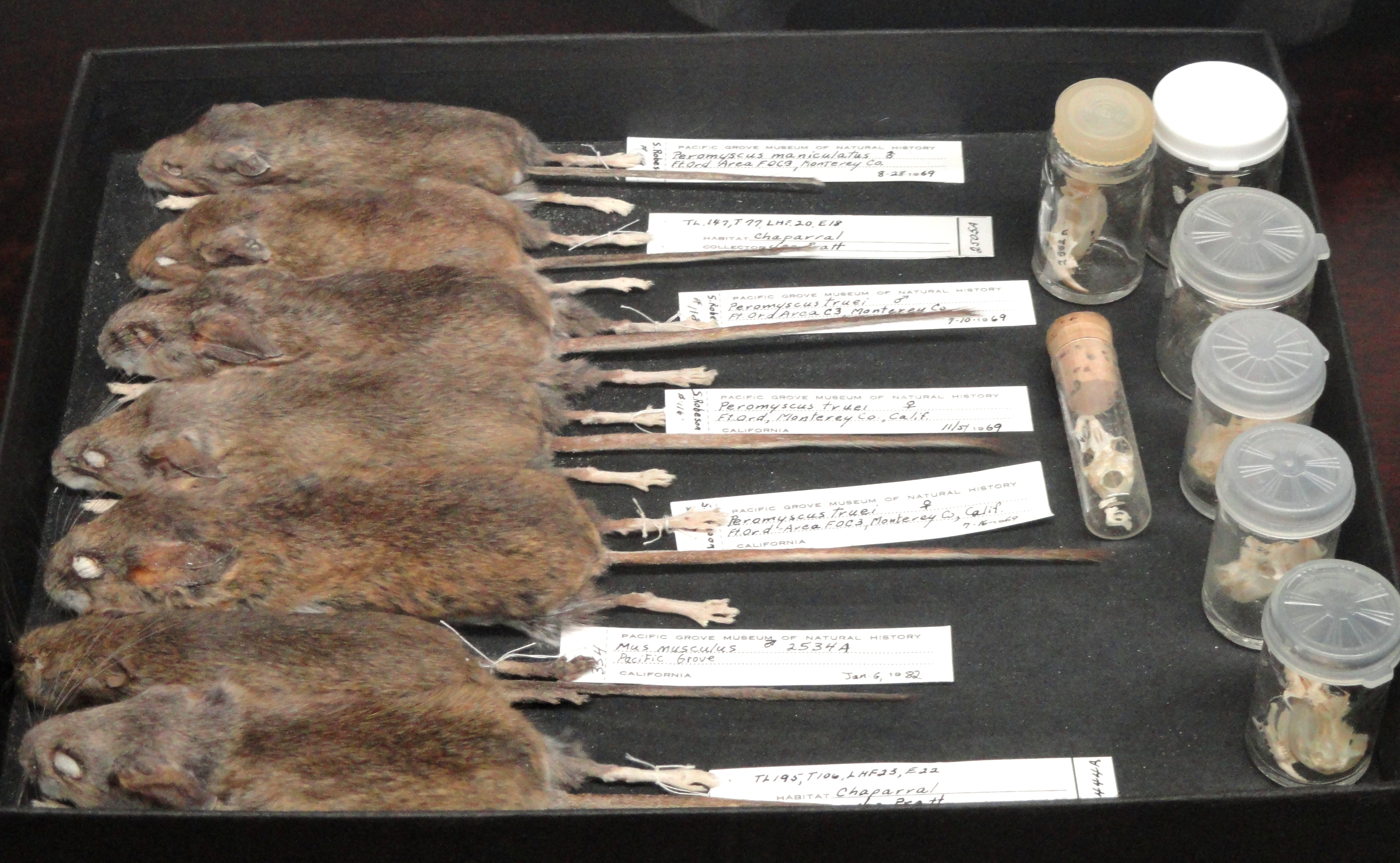 Exhibit in the Pacific Grove Museum of Natural History, Pacific Grove, California, USA. Photography was permitted without restriction in the museum.